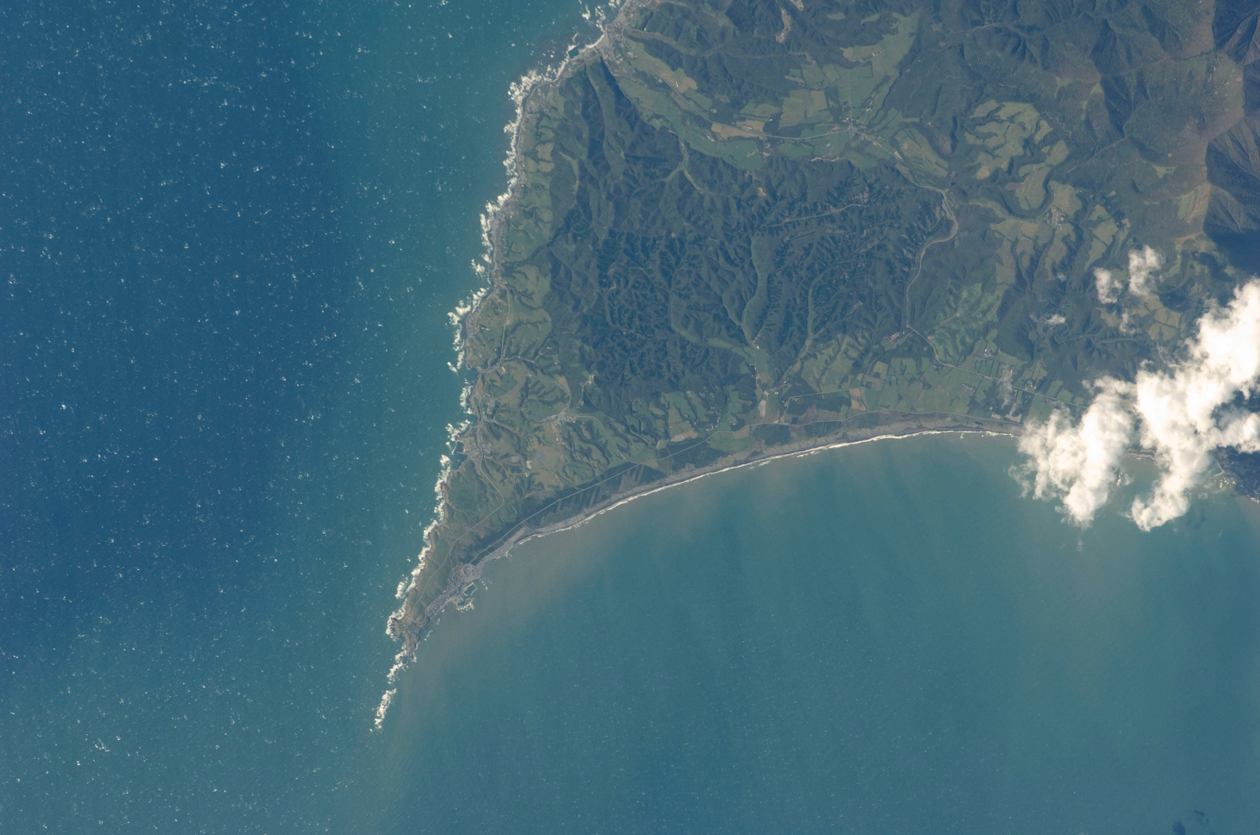 HOKKAIDO--ERIMOMISAKI, COAST, MTS, taken from the International Space Station on Oct. 11, 2009.